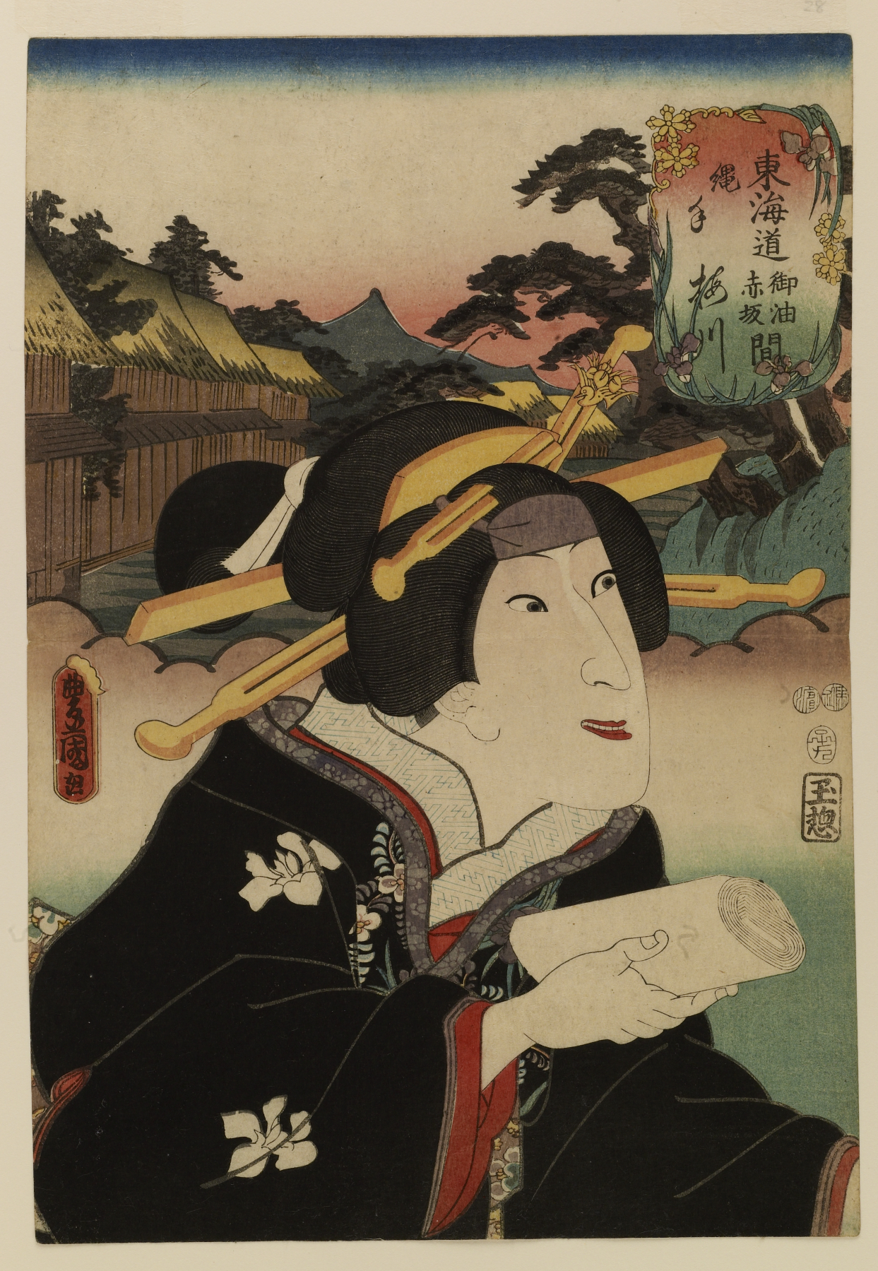 The actor Iwai Hanshirō VII in the role of Tsuchiya Umegawa. The courtesan Umegawa holds a roll of paper given to her by her lover's father. Her lover Chubei has taken her to his home town, but when they see Chubei's father fall down, only Umegawa is willing to lend a helping hand. When she asks the old man for some of the paper he uses to mend his sandal, he realizes that Umegawa must be his son's betrothed.